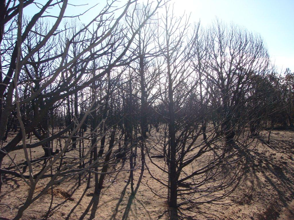 Photograph showing the aftermath of the Trigo Fire, Torrance County, New Mexico, April-May 2008.